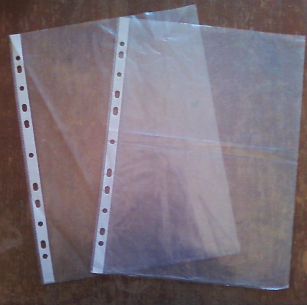 Two transparent punched pockets for documents, which can be binded in file folders.